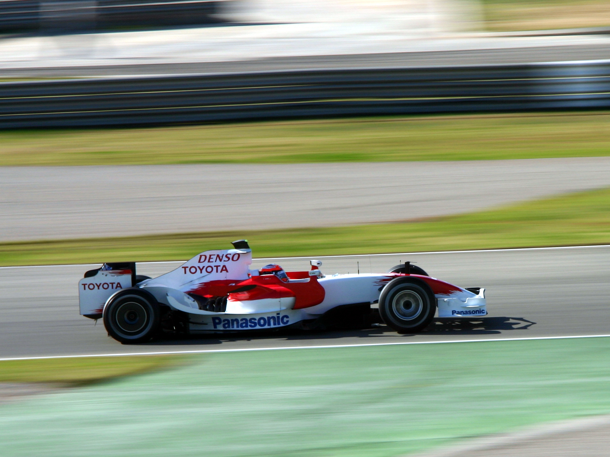 Timo Glock testing at Cheste in 2008